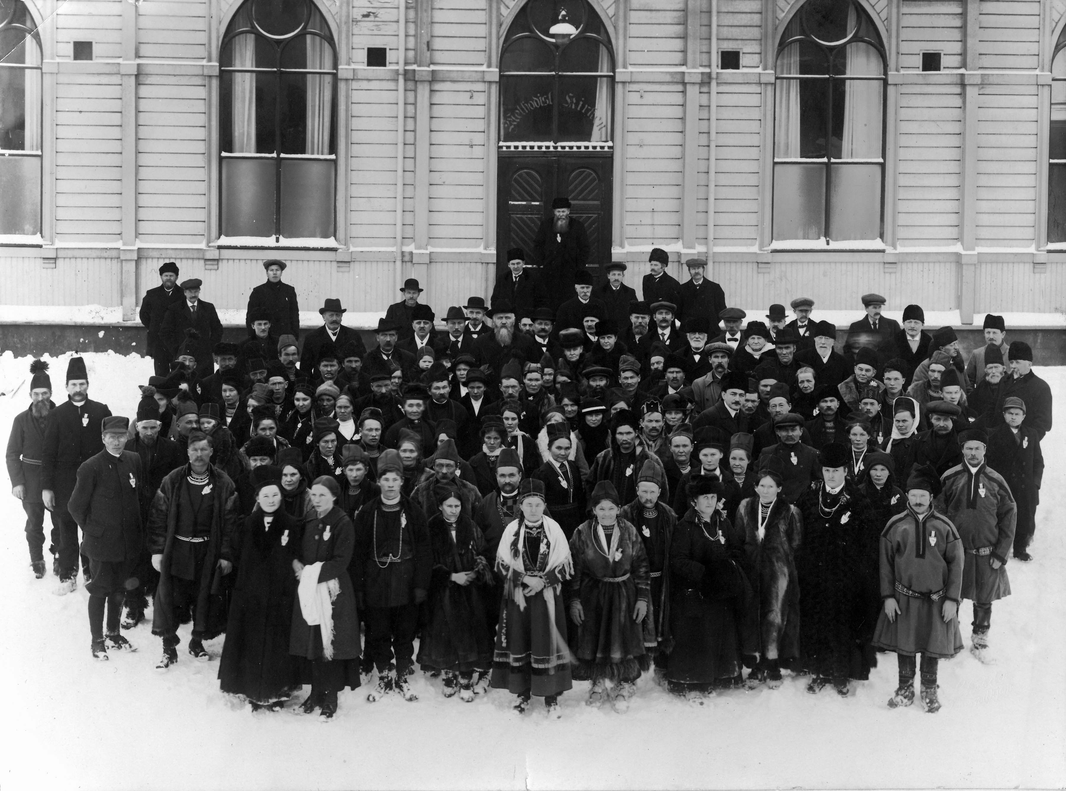 The delegates of the first Sami National Convention in Trondheim, Norway